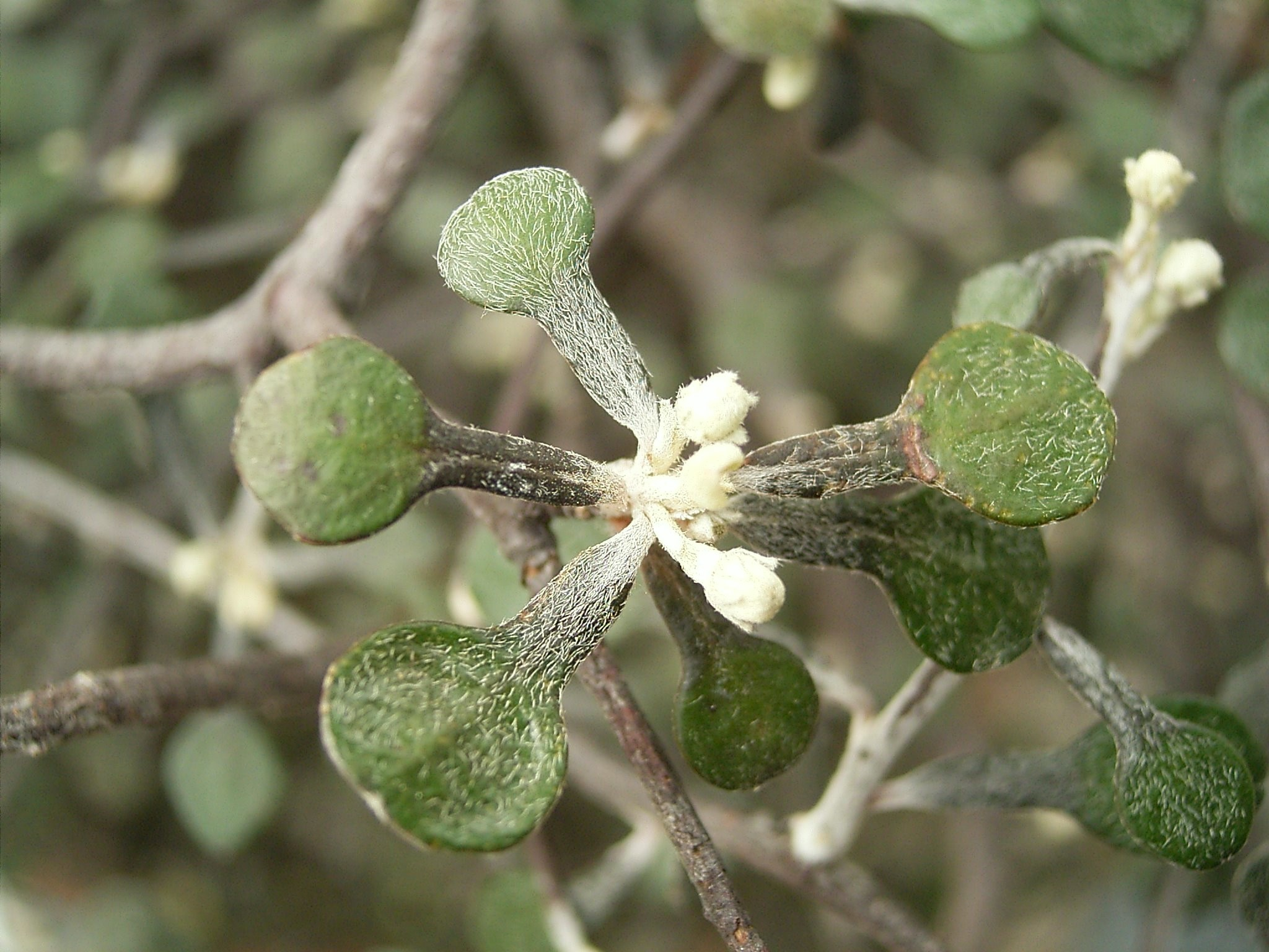 Corokia cotoneaster Raoul (1844)